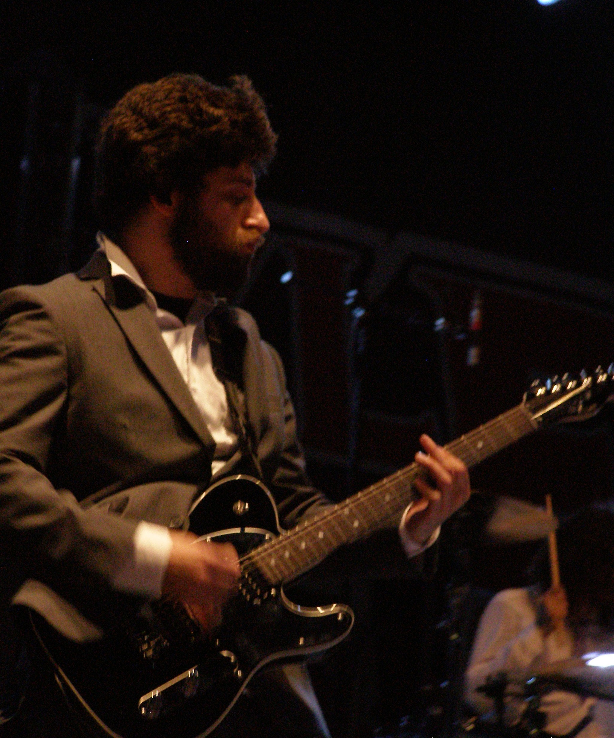 Joe Trohman performing in East Rutherford, New Jersey on May 9, 2009.